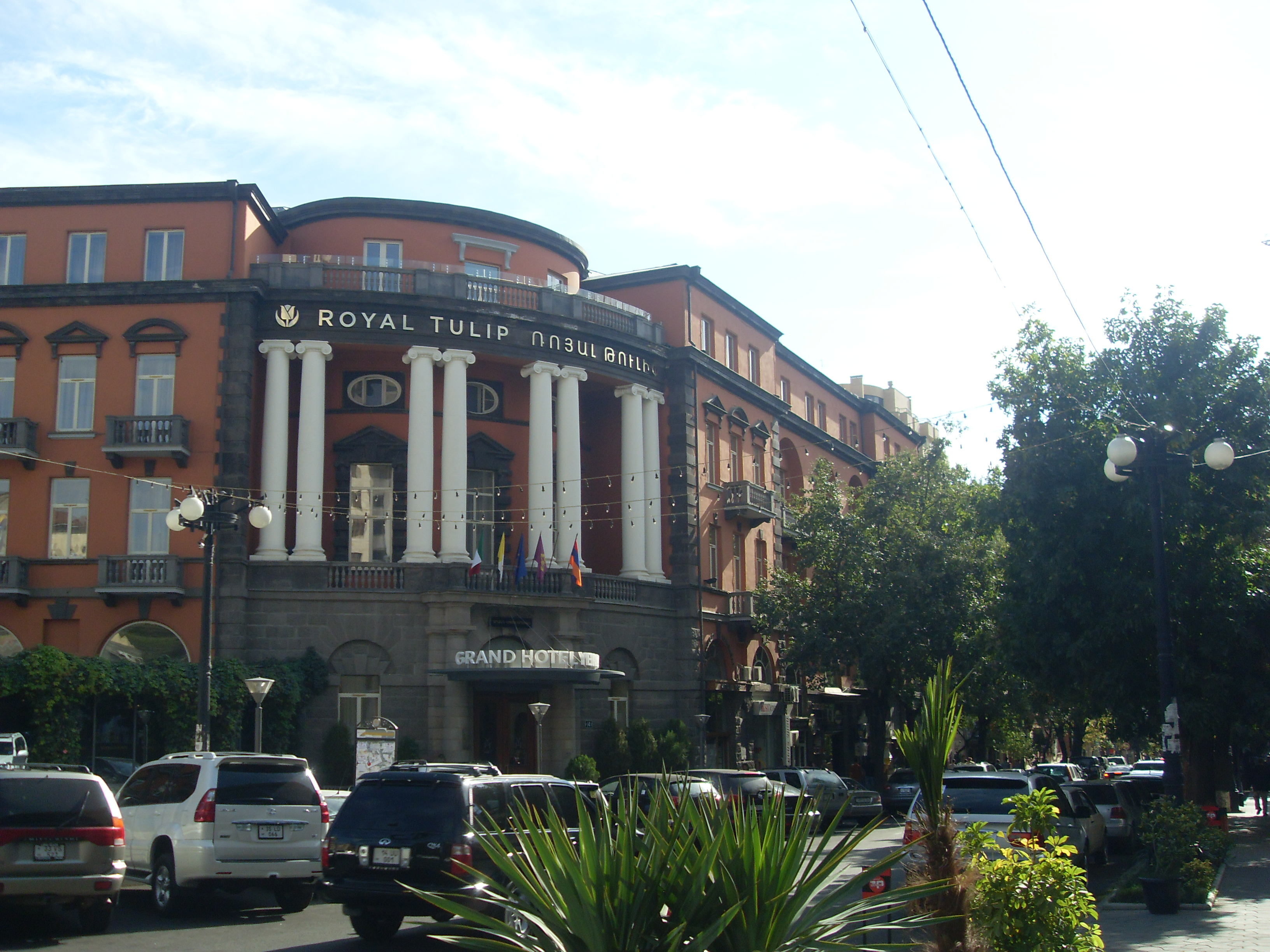 Hotel Yerevan (Royal Tulip), Yerevan, 1927, archit. N. Buniatyan 6/176.3.3